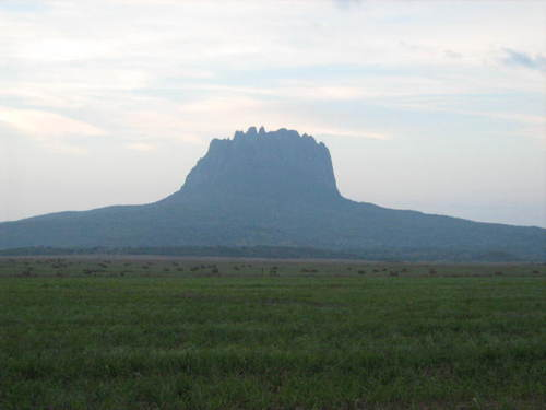 Cerro del Bernal Tamaulipas Mexico